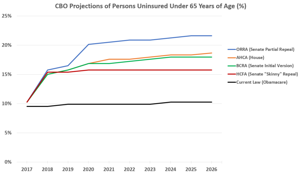 CBO projections of persons uninsured under 65 years of age (%) under various legislative proposals and current law